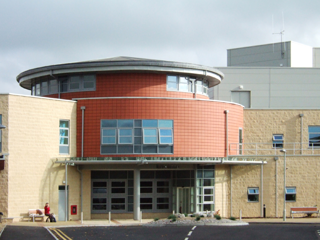 Stoke Mandeville Hospital New PFI Building